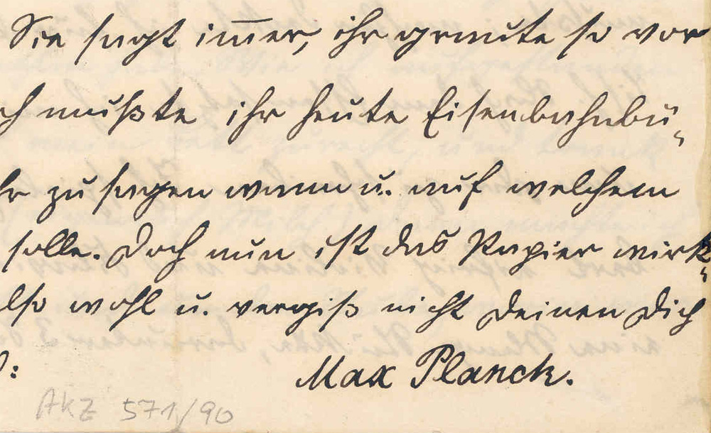 The signature of Max Planck at 10 years of age.